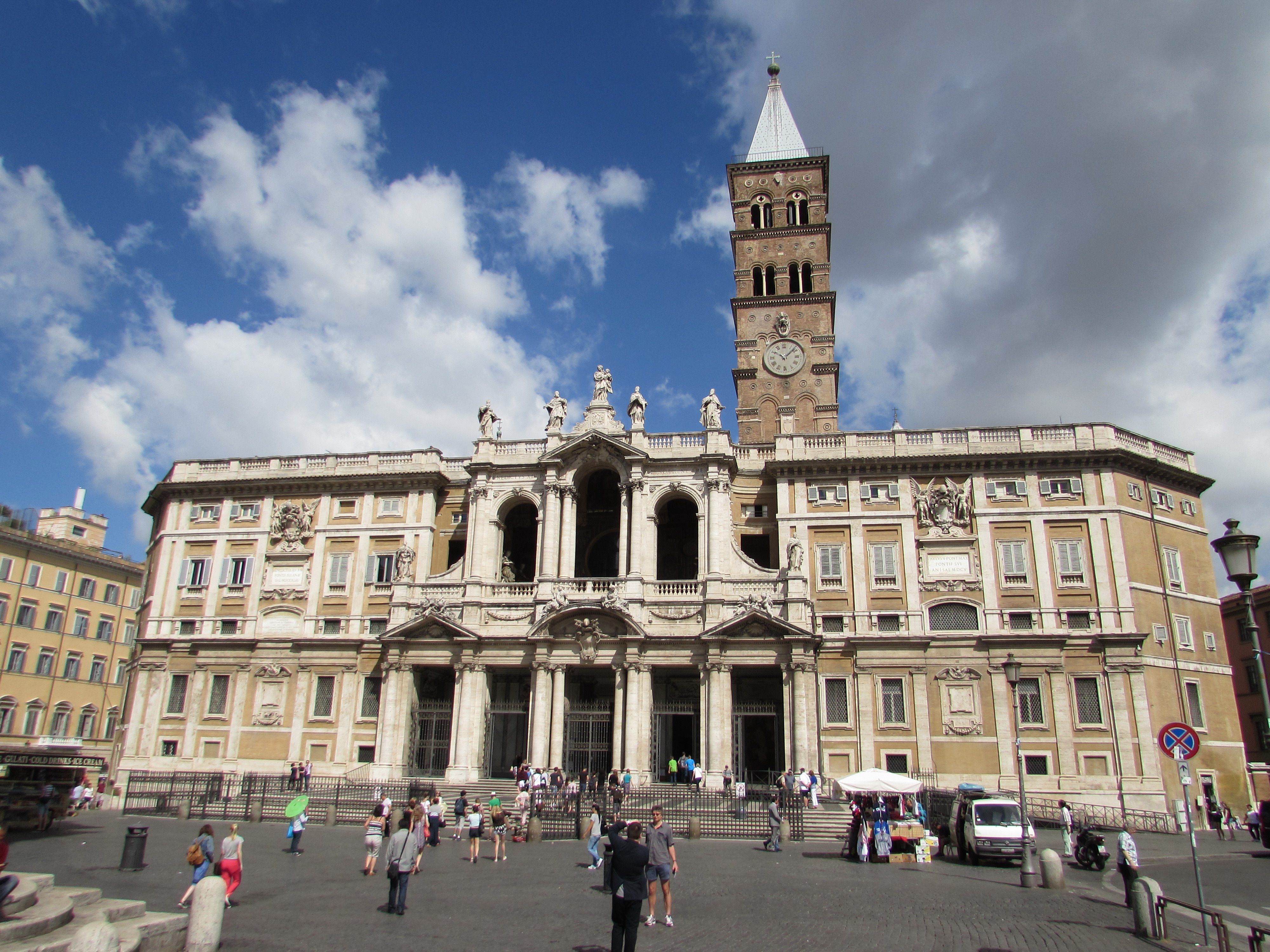 Santa Maria Maggiore (Rome)